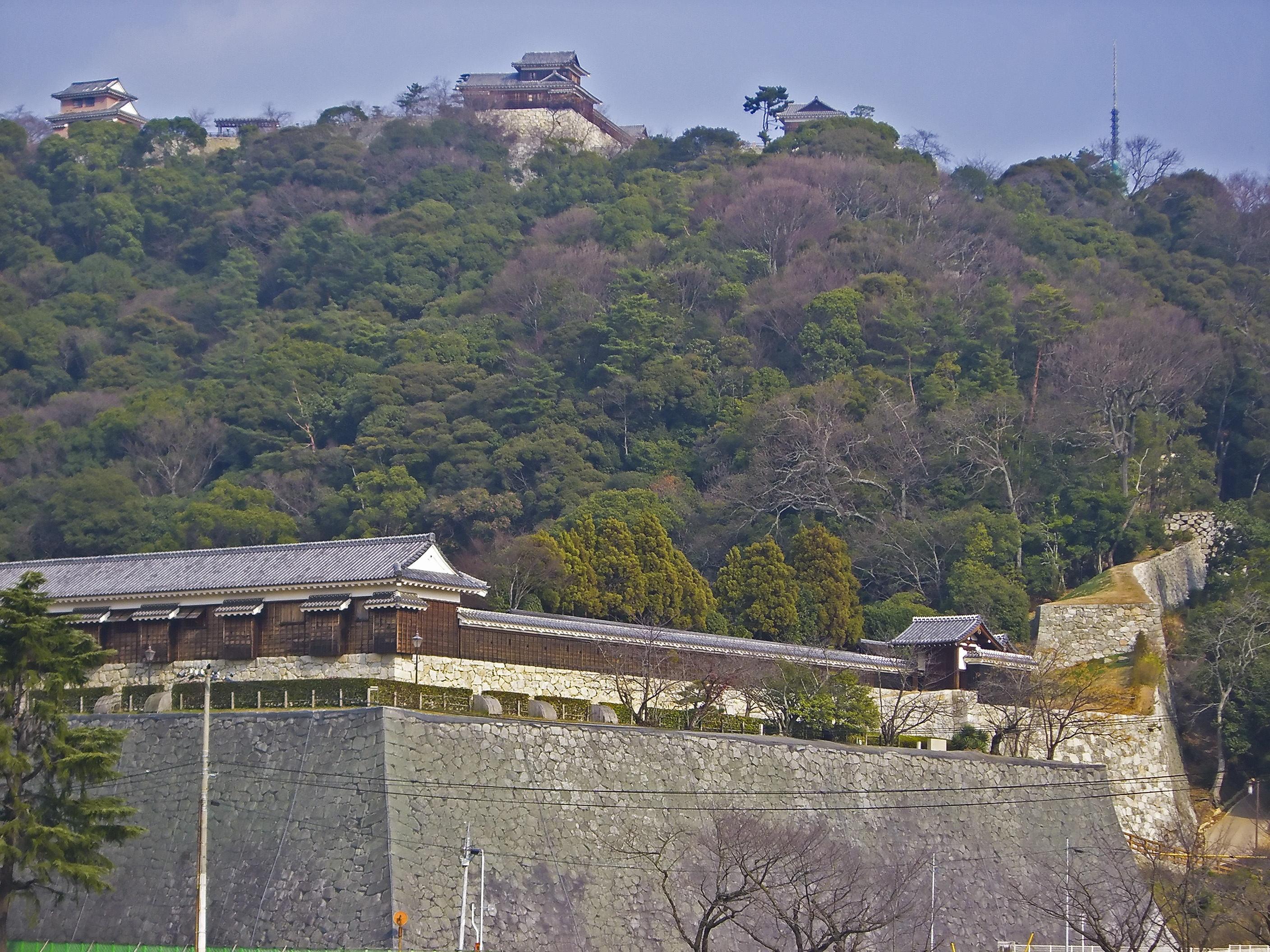 Iyo Matsuyama Castle photo by Jyo81